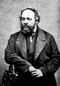 Mikhail Bakunin